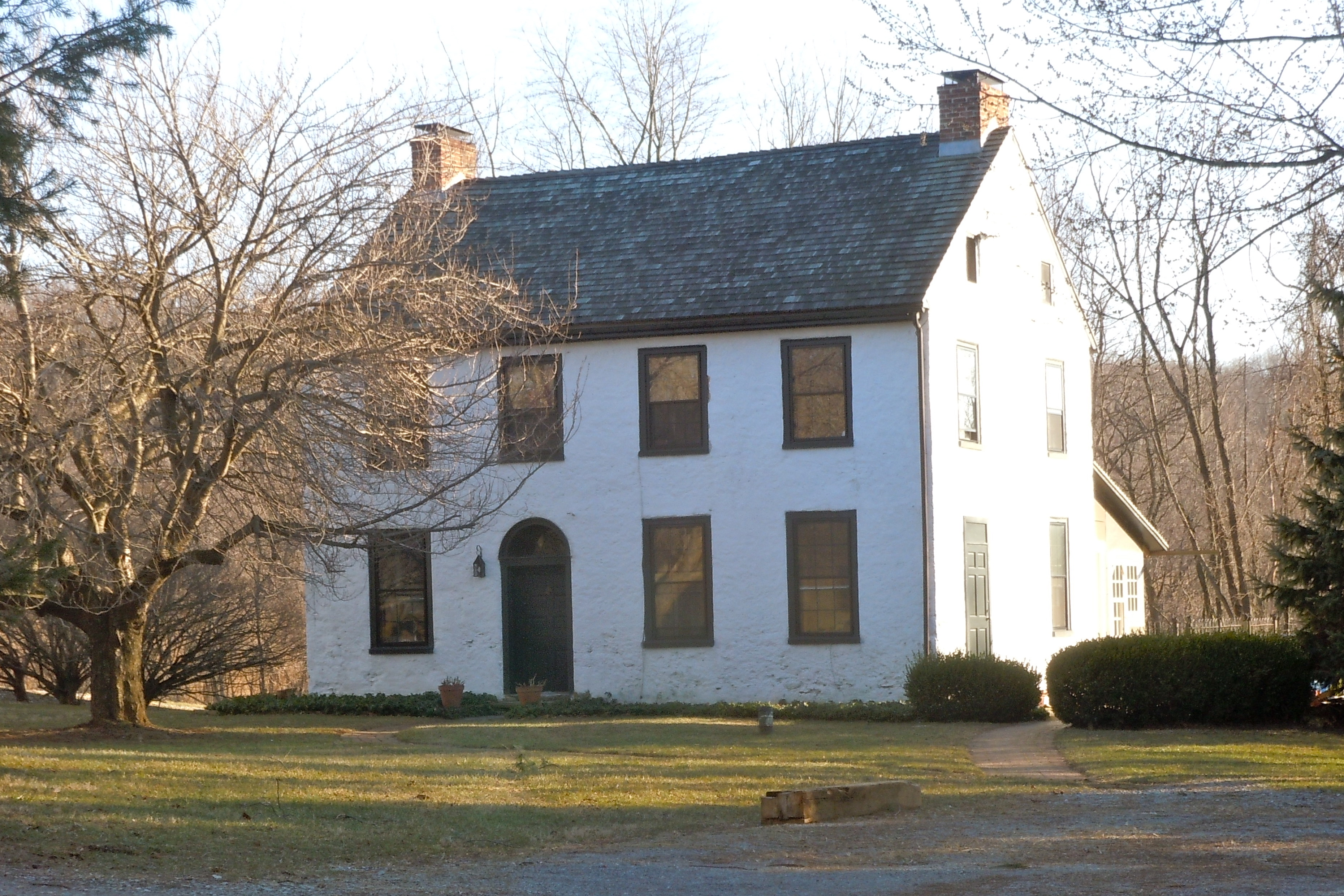 Mansel Passmore House on the NRHP since May 20, 1985. On Glen Rose Road near Coatesville, Chester County, Pennsylvania, in East Fallowfield Township